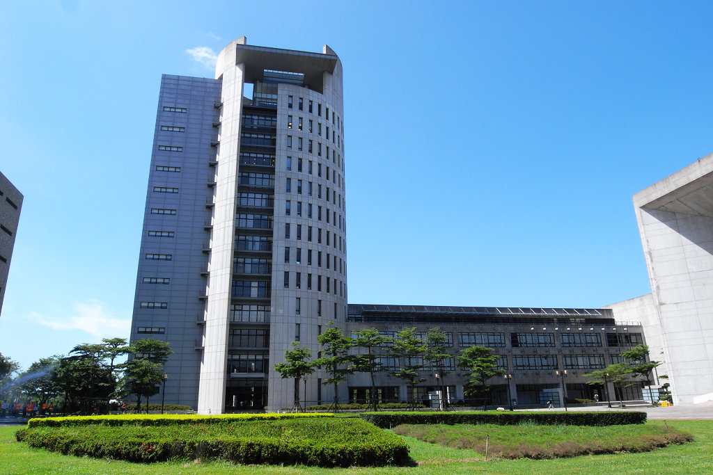 Yuan Ze University 6th Building